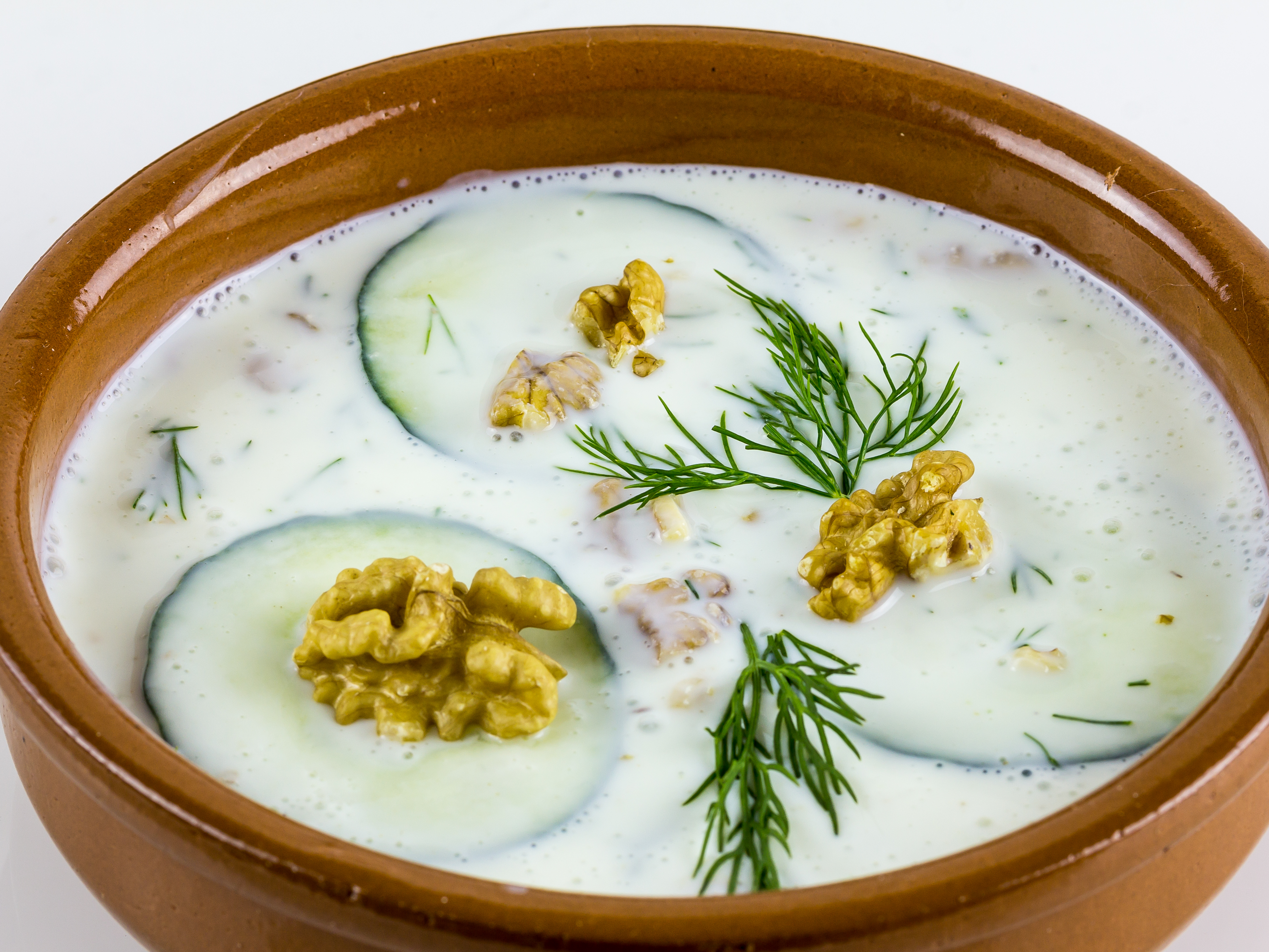 Cucumber soup